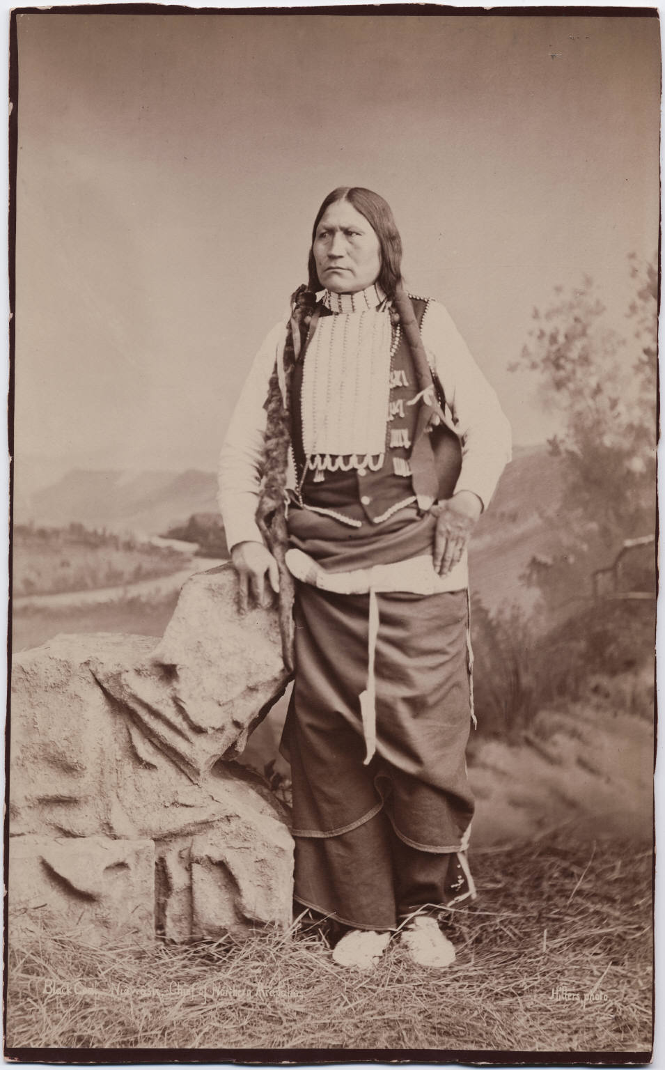 "Black Coal," black and white photographic portrait of the Northern Arapahos chief, by the American photographer John K. Hillers. Photograph taken at Washington, D.C., and published by Charles M. Bell. 25.2 cm x 41.4 cm. Yale Collection of Western Americana, Beinecke Rare Book and Manuscript Library, Yale University, New Haven, Connecticut.